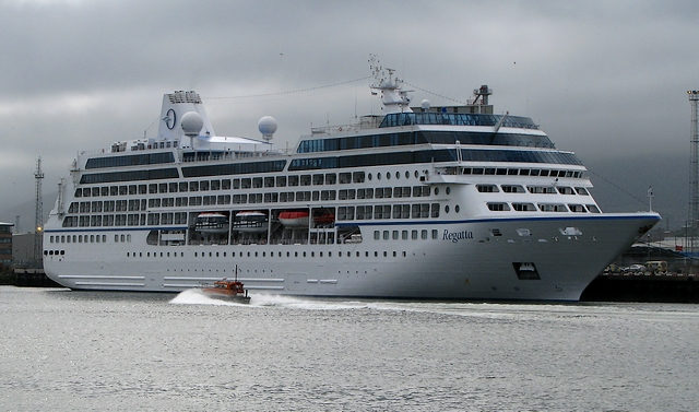 Cruise ship 'Regatta' at Belfast. Another cruise ship on a visit to Belfast. See also 7259096 for related images. The small boat passing 'Regatta' is the Belfast Harbour Pilot - see 1393357.